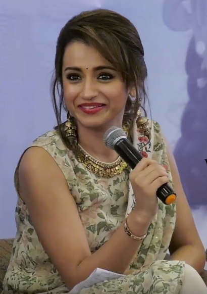 Trisha at World Children's Day Press Meet 2017